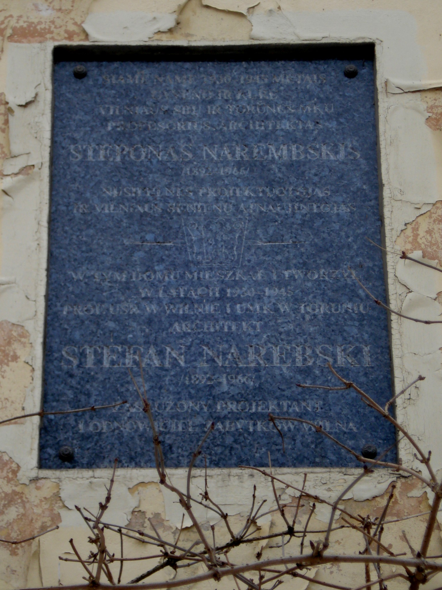 House of architect Stefan Narębski (1892–1966) in Vilnius (J. Savickio g. 4). Memorial plaque